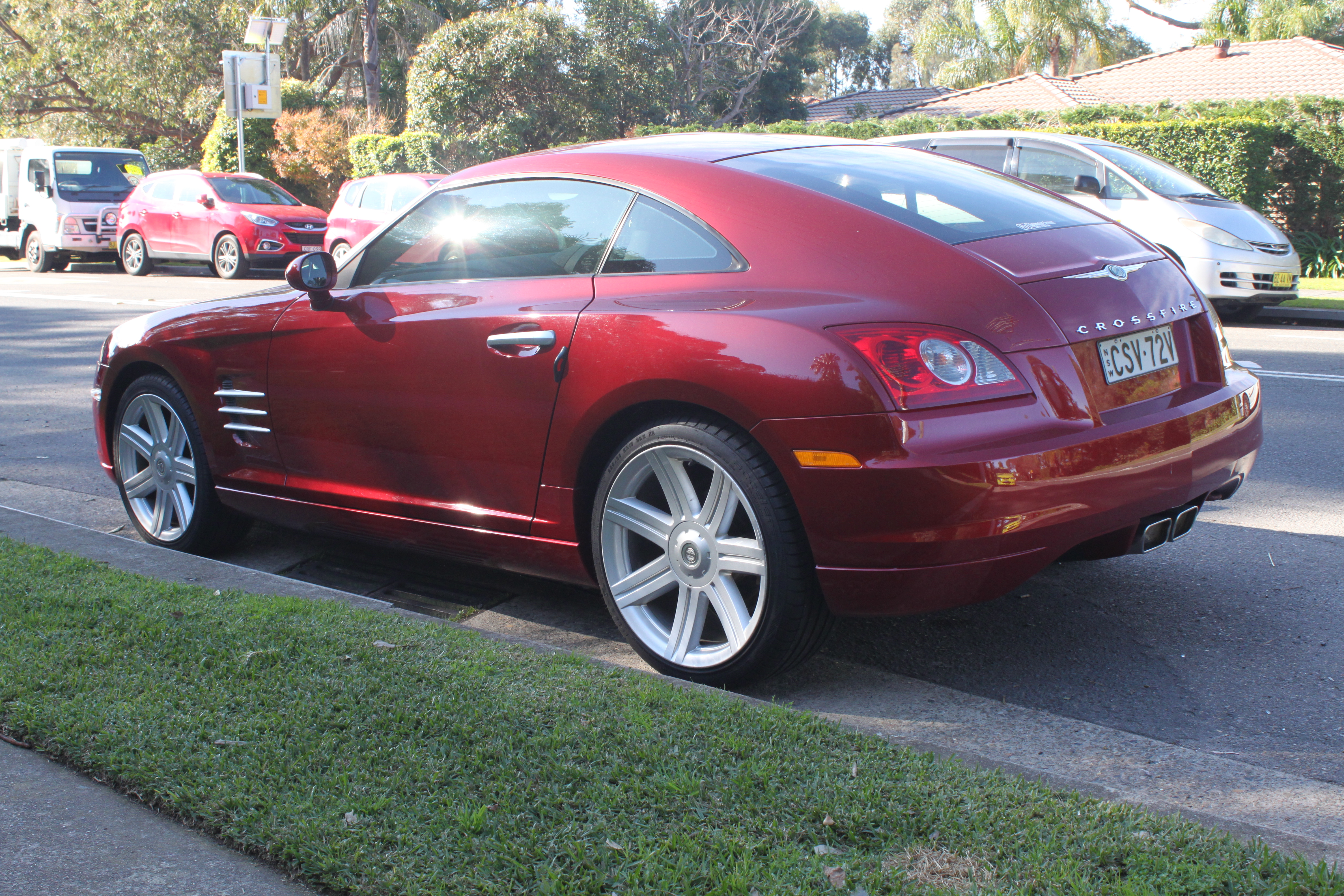 2004 Chrysler Crossfire ZH